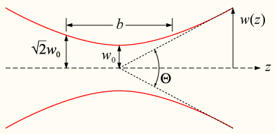 Diagram of Gaussian beam parameters